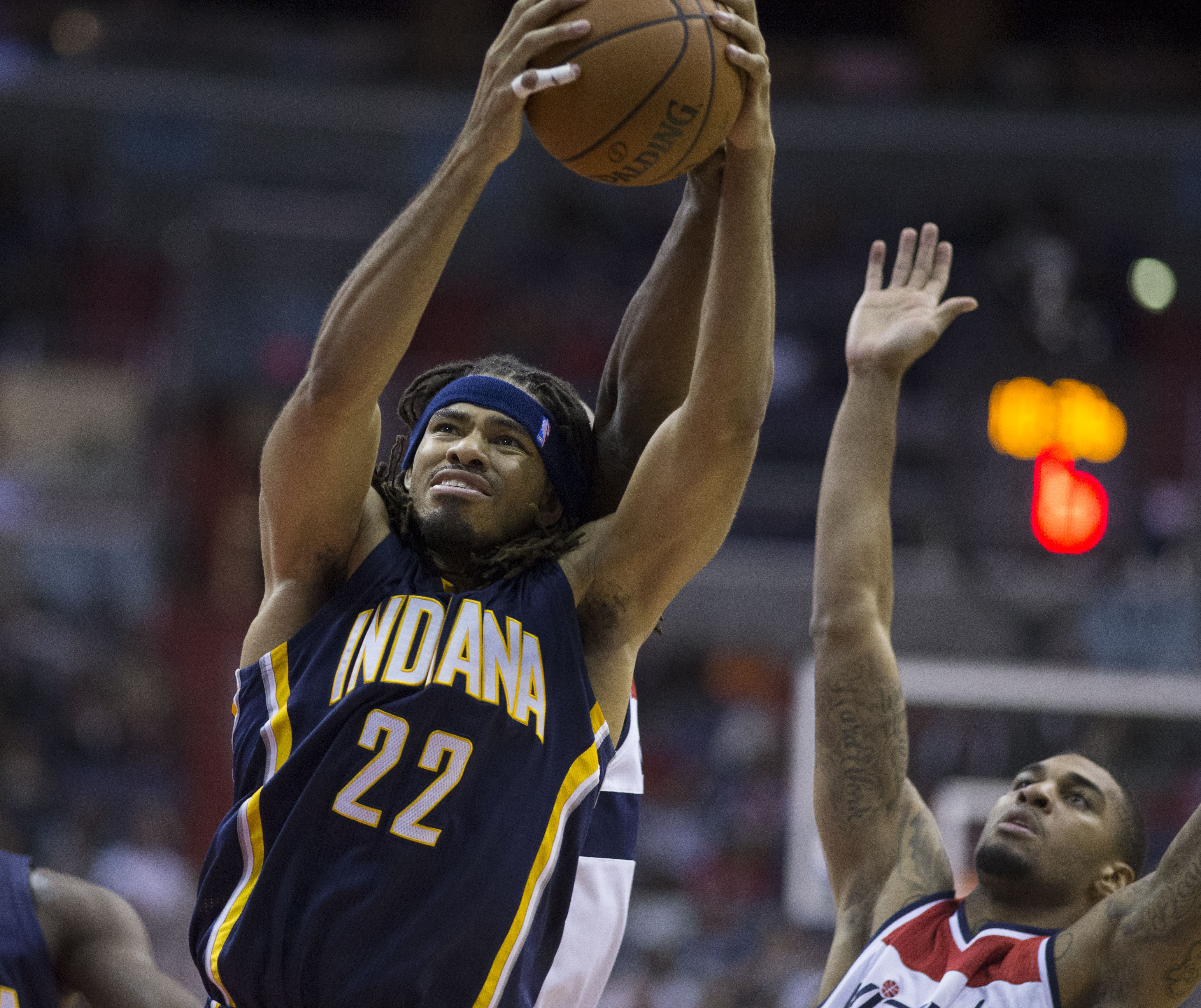 Pacers at Wizards 11/05/14